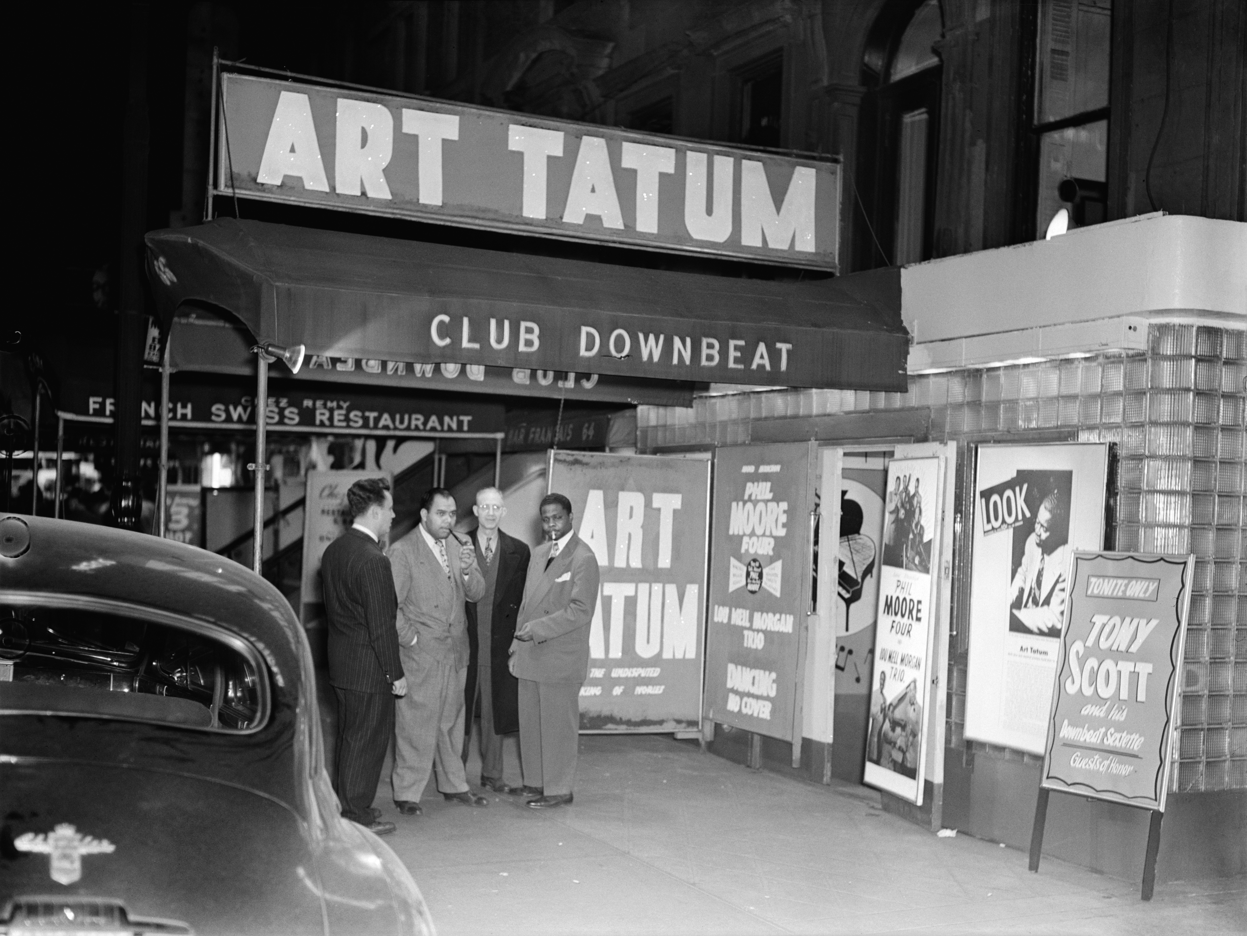 Art Tatum (right) and Phil Moore (left), Downbeat, New York, N.Y., between 1946 and 1948 (Photograph by William P. Gottlieb)